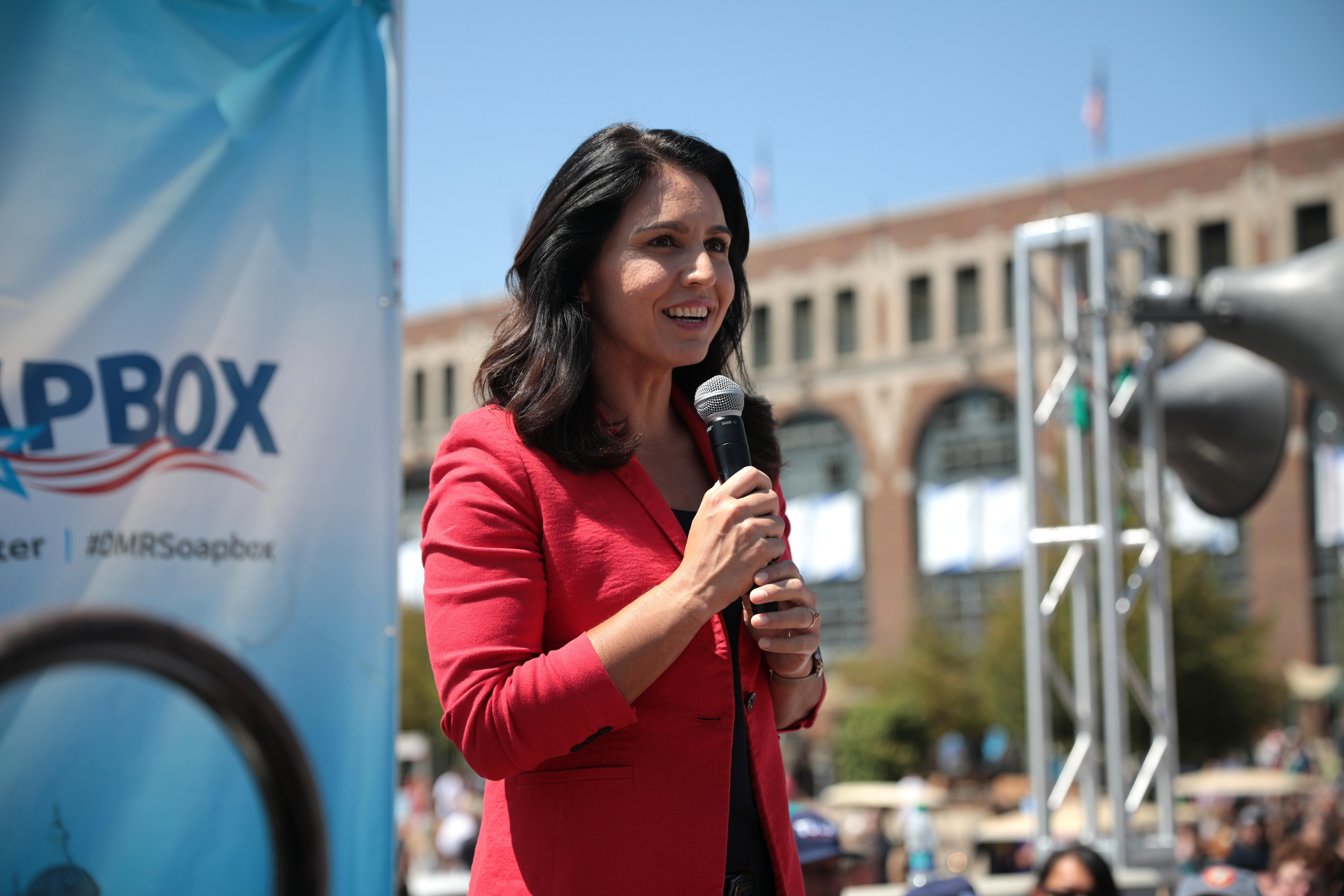 U.S. Congresswoman Tulsi Gabbard speaking with supporters at the Des Moines Register's Political Soapbox at the 2019 Iowa State Fair in Des Moines, Iowa.